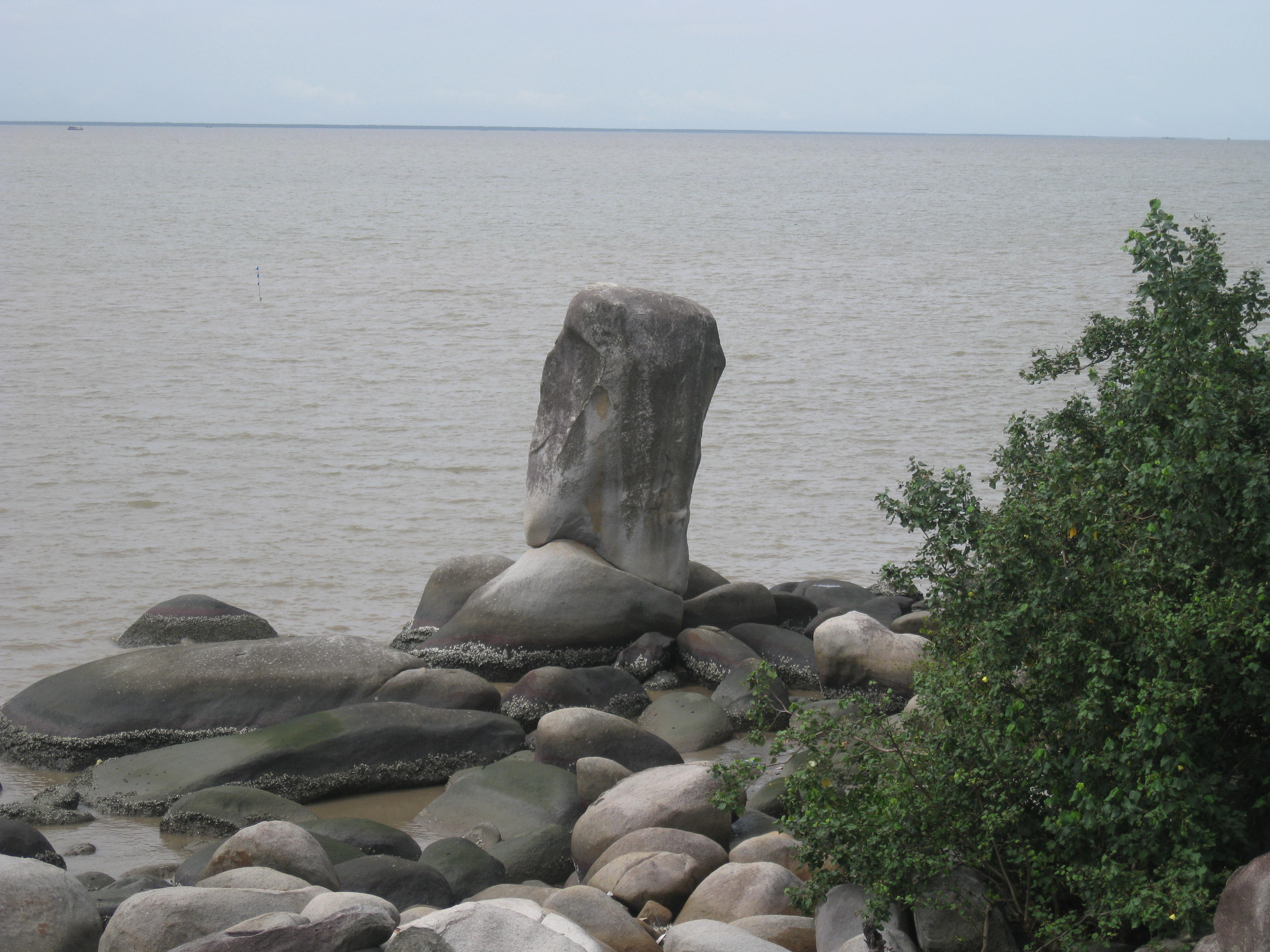 Hòn Tre (Kiên Giang).